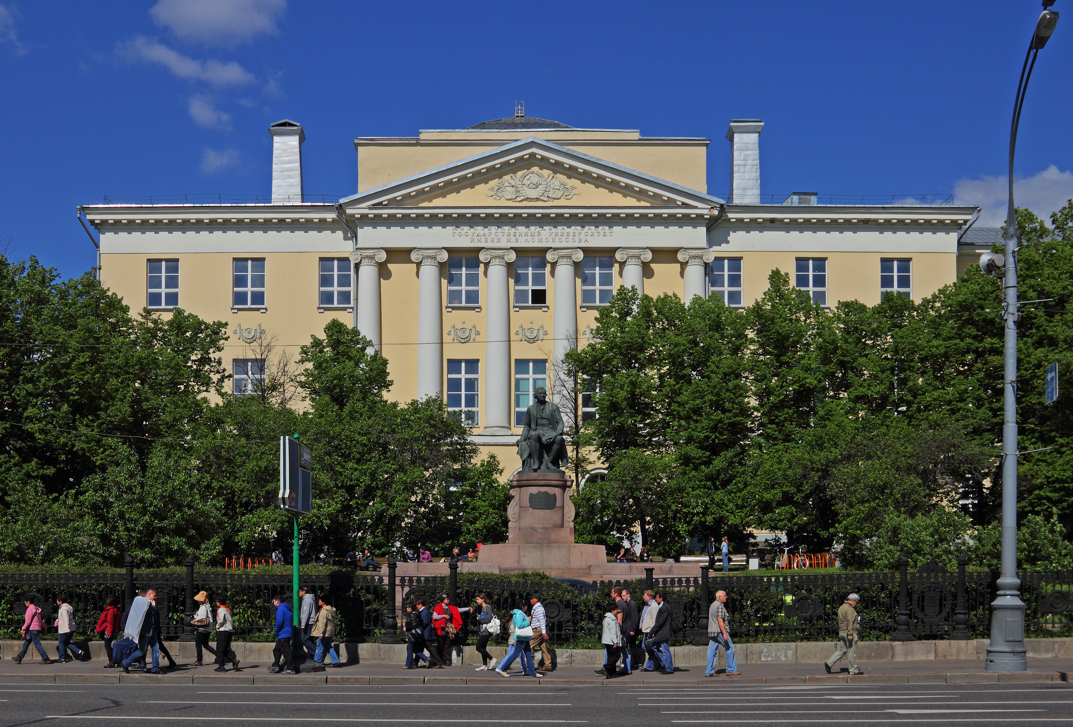 Moscow, Russia. Mokhovaya Street, old buildings of the Moscow State University.